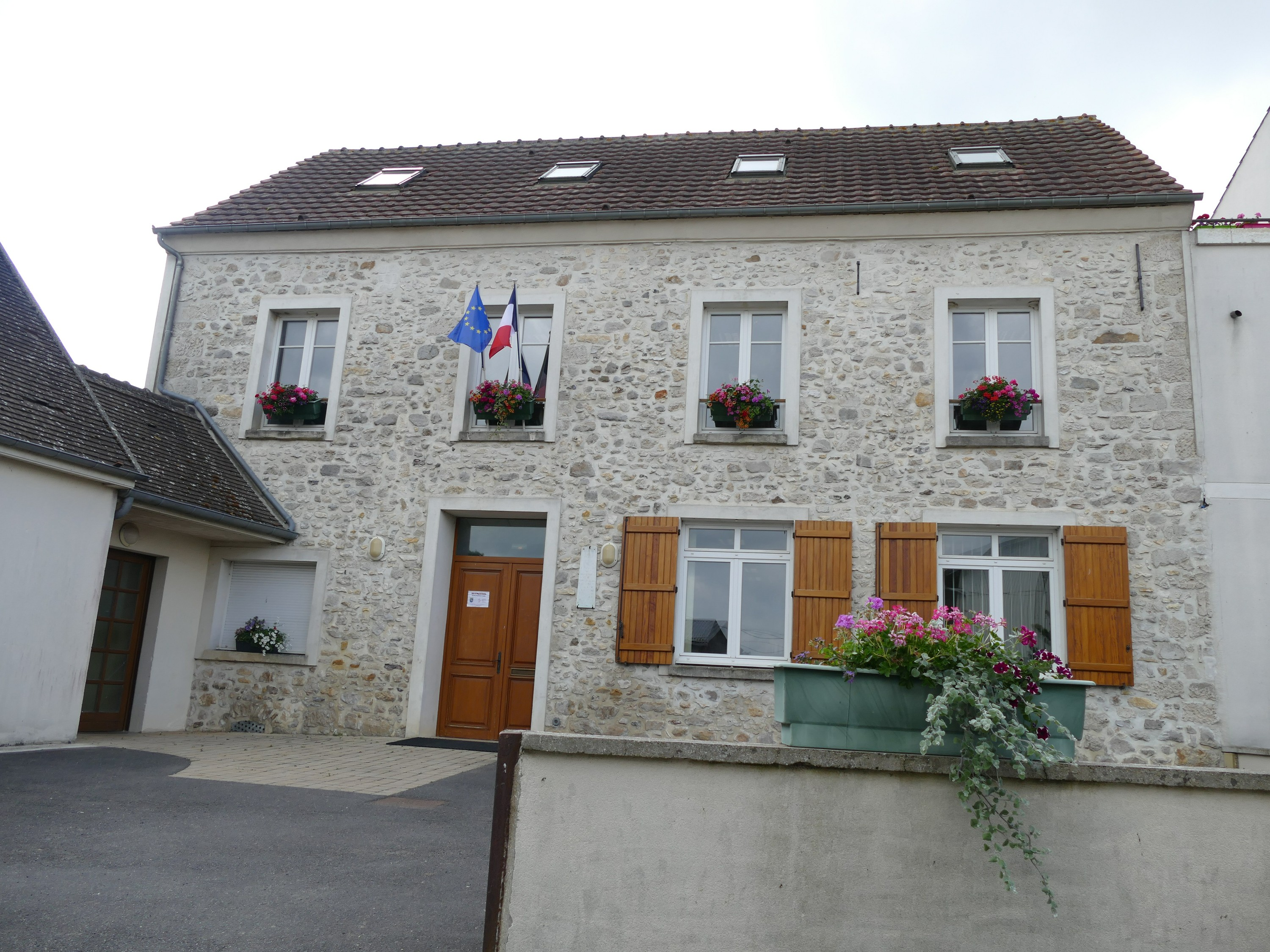 The city hall in Péroy-les-Gombries (Oise, Picardie, France).